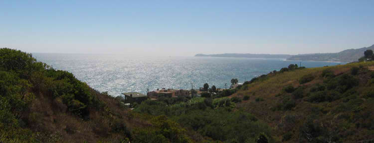 Photographed by me (K. Hashmi; http: 2006-08-26 from Malibu Bluffs State Park. Camera facing West toward Point Dume.